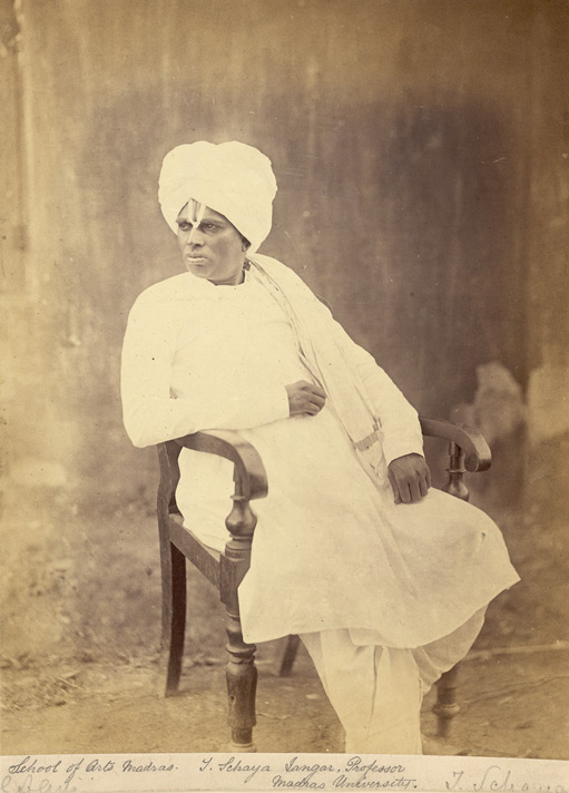 Photograph of T. Schaya Iangar, a Madras University Professor, taken in the 1860s by a photographer from the Madras School of Industrial Arts. Uploaded by Fowler&fowler«Talk» 12:31, 24 September 2011 (UTC)